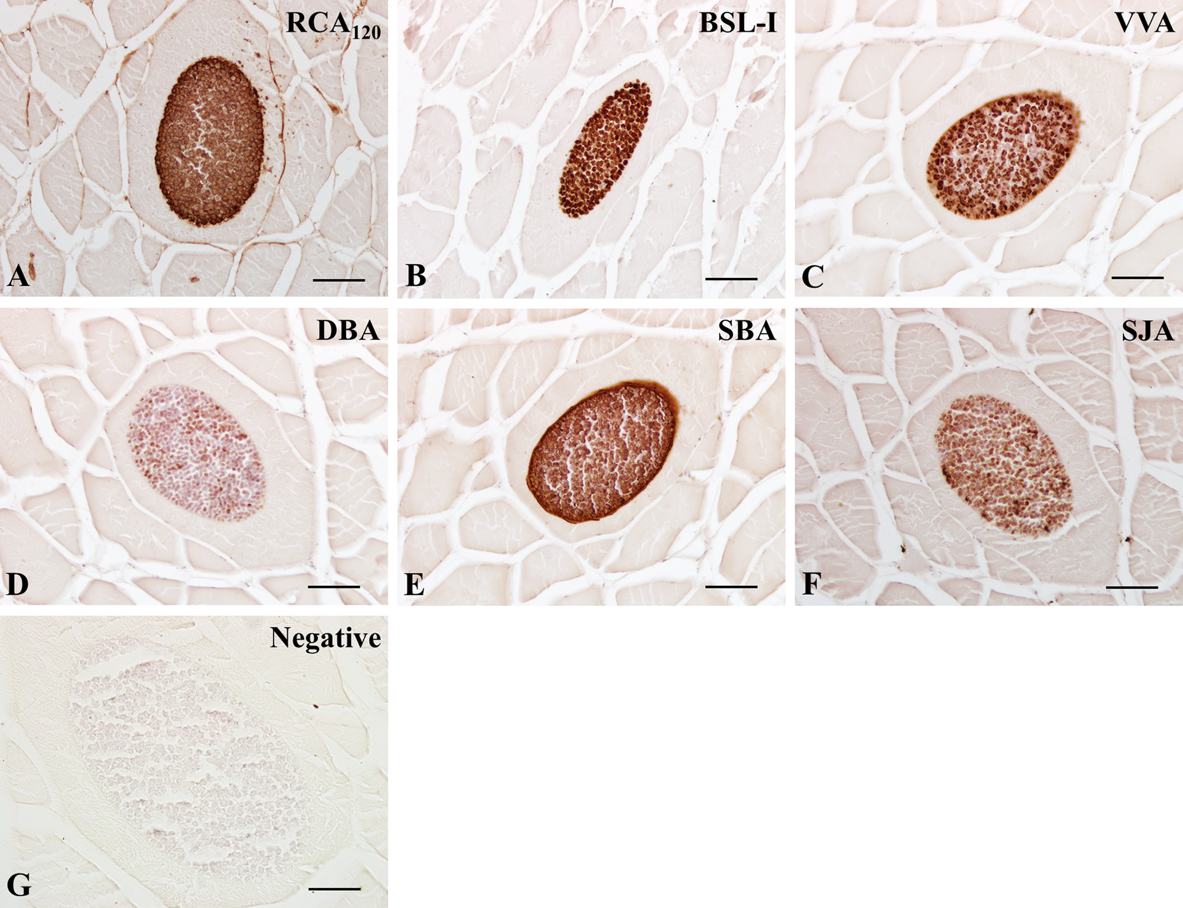 Figure 3 of the paper Lectin histochemical findings of galactose/N-acetylgalactosamine in Kudoa septempunctata-infected muscles. A, RCA120; B, BSL-I; C, VVA; D, DBA; E, SBA; F, SJA; G, Negative control (DBA preabsorbed with 0.2 M GalNAc). Scale bars in (A)–(G) represent 20 μm.